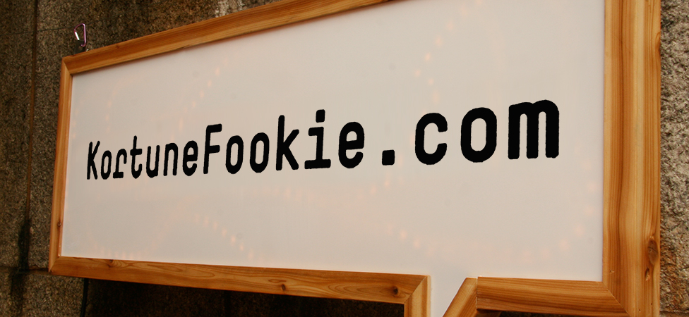 Signage for the interactive public art project Kortunefookie